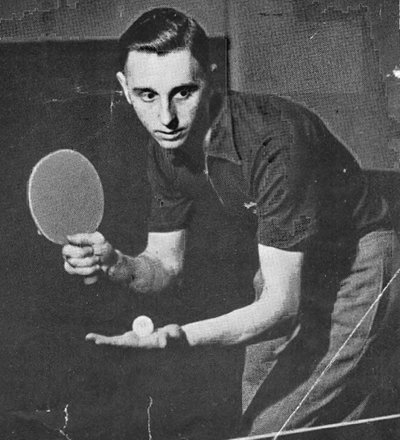 Johnny Leach (1922-2014), an early British table tennis champion. See Johnny Leach.